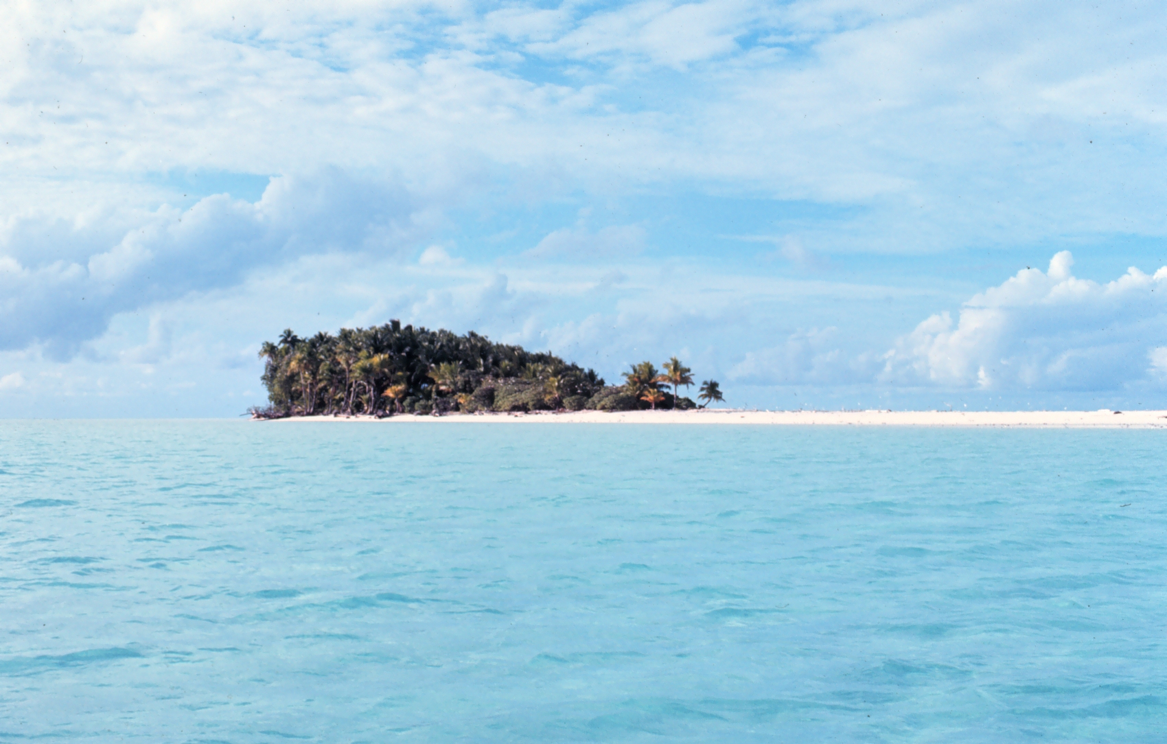 Helen Island, Helen Reef, Palau. Original description: "Helen's Reef - a classic desert island - elevation above sea level about 8 feet."